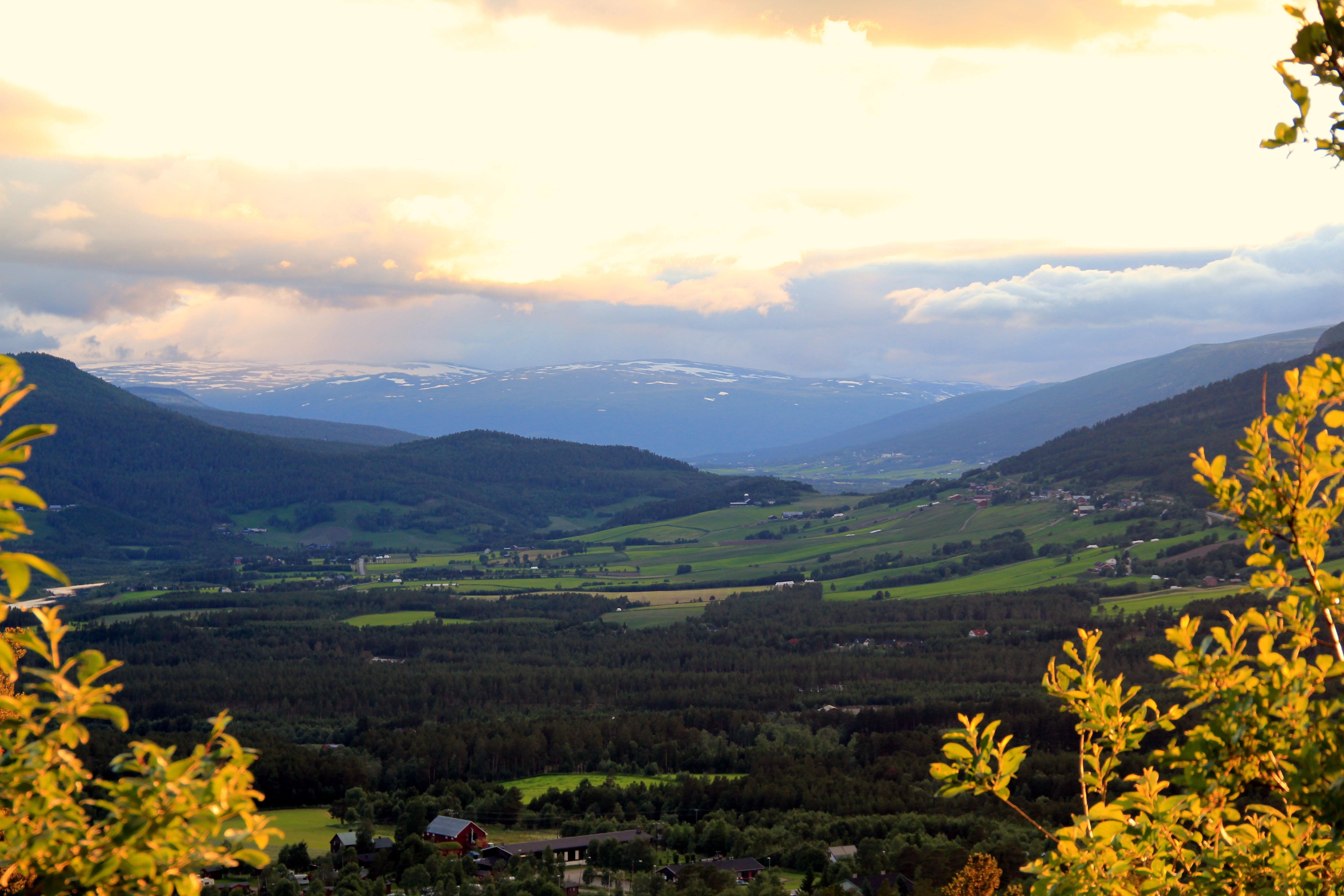 Dombås, towards Romsdalen